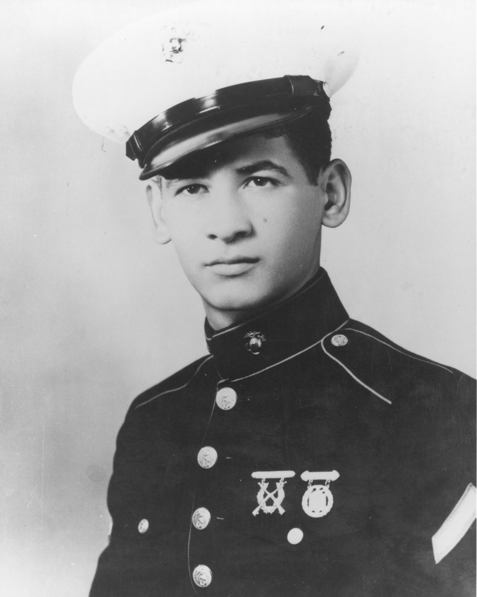 Private First Class Eugene A. Obregon, United States Marine Corps; posthumous Medal of Honor recipient for sacrificing his life to save the life of a wounded fellow Marine (September 1950) Author: United States Marine Corps Source: Official Marine Corps biography URL